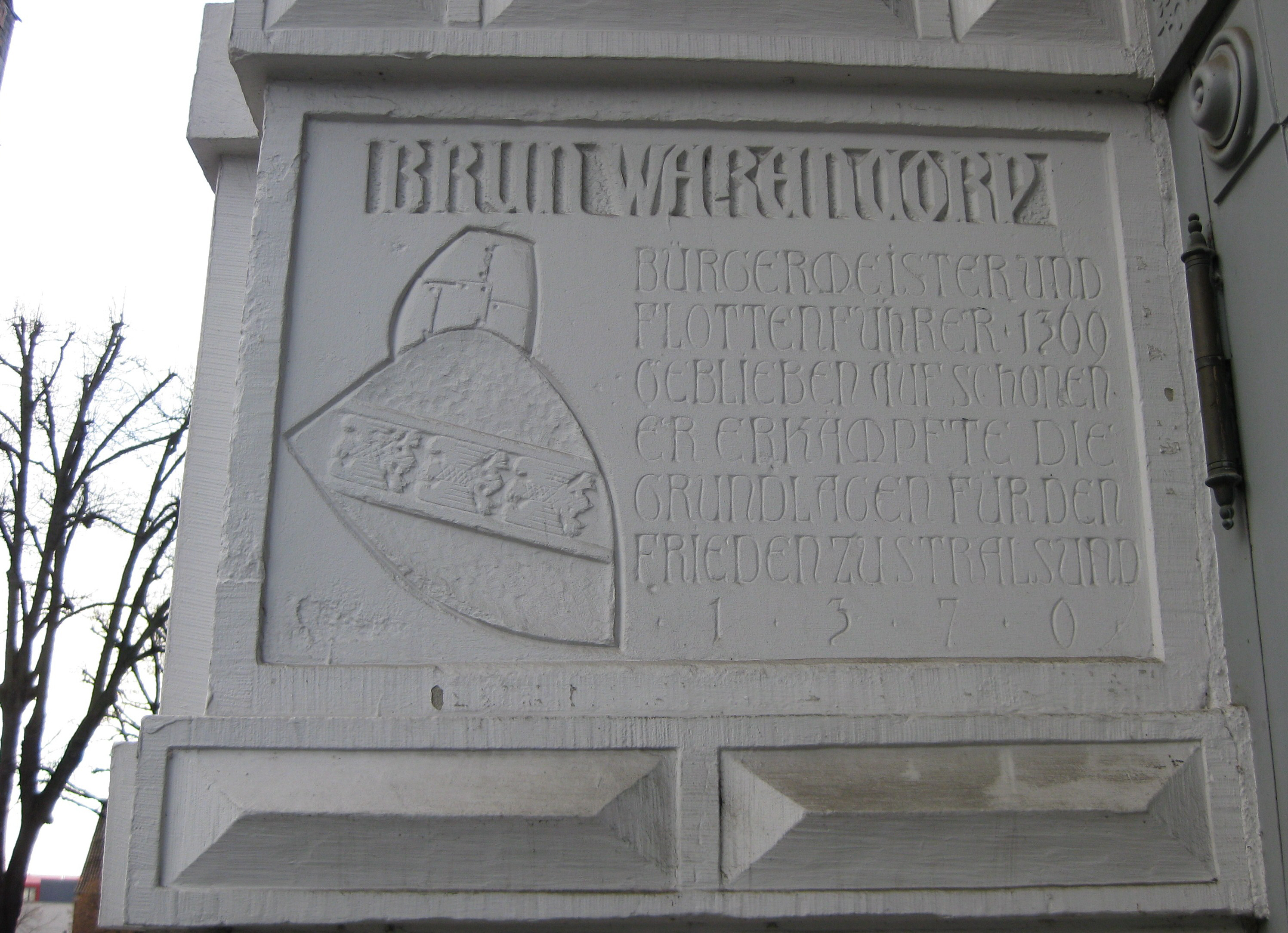 Memorial Plaque for Lübecks Mayor Brun Warendorp (d. 1369) at the entrance of Mengstraße 4. NB: the plaque from 1936 wrongly renders the larks in the Warendorp coat of arms as eagles (!).